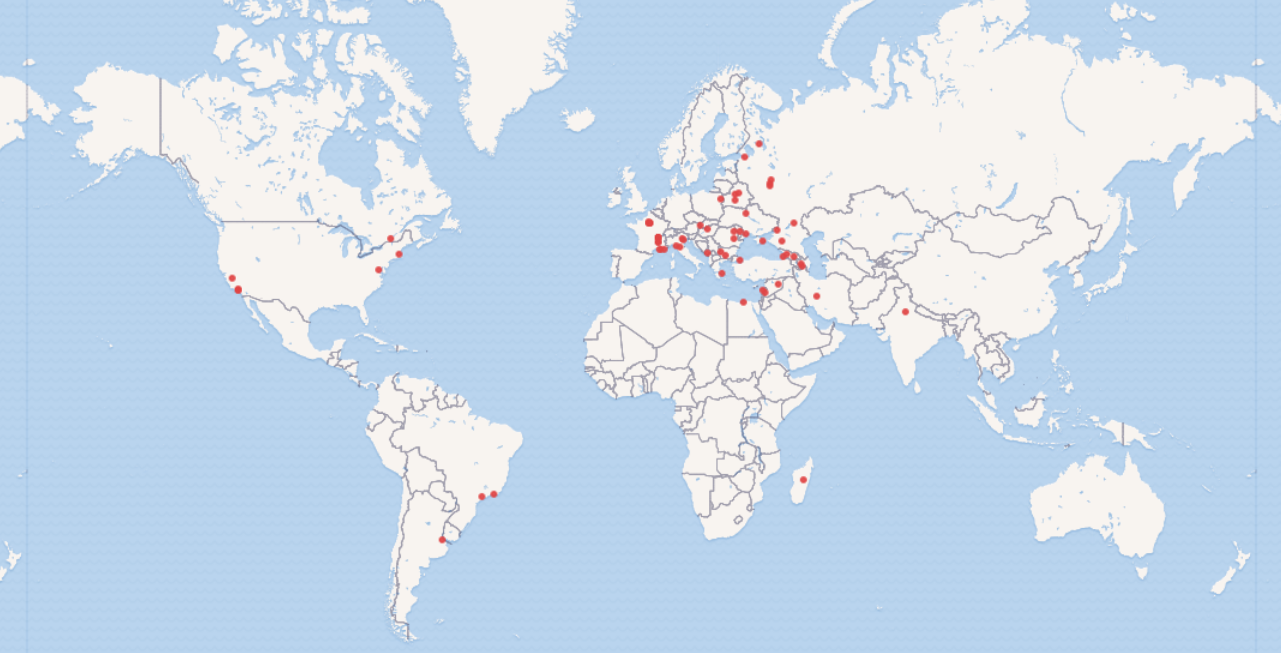 A map made using and a SPARQL query. Each point represents a city that has a sister-city in Armenia. Query: SELECT ?item ?itemLabel ?sisterCity ?sisterCityLabel ?coord WHERE { ?item wdt:P17 wd:Q399 . ?item wdt:P190 ?sisterCity . ?sisterCity wdt:P625 ?coord . SERVICE wikibase:label { bd:serviceParam wikibase:language "en" . ?item rdfs:label ?itemLabel . ?sisterCity rdfs:label ?sisterCityLabel .